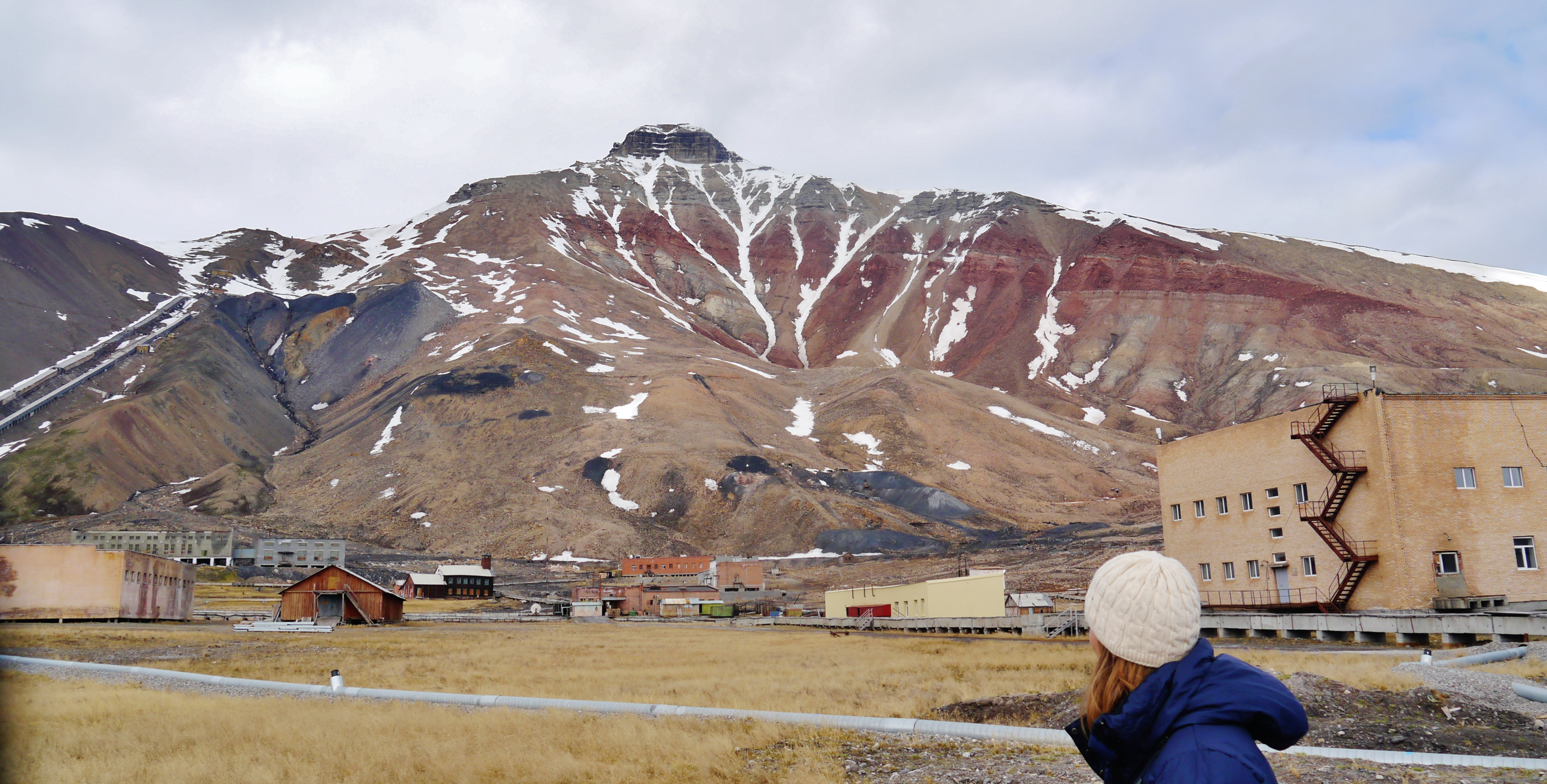 Pyramiden, Spitsbergen, Norway